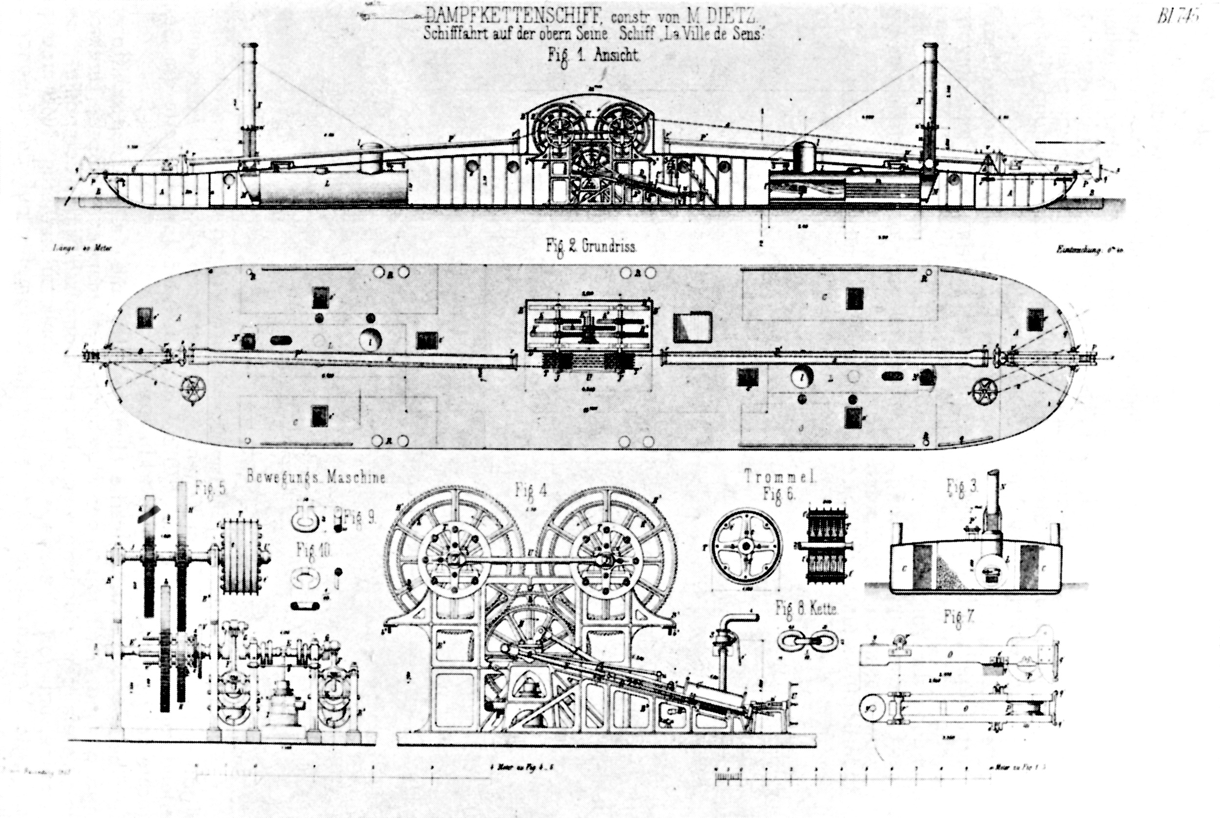 Architectural drawing of the French chain boat, La Vill de Sens (1850)